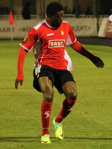 Geoffrey Mujangi Bia